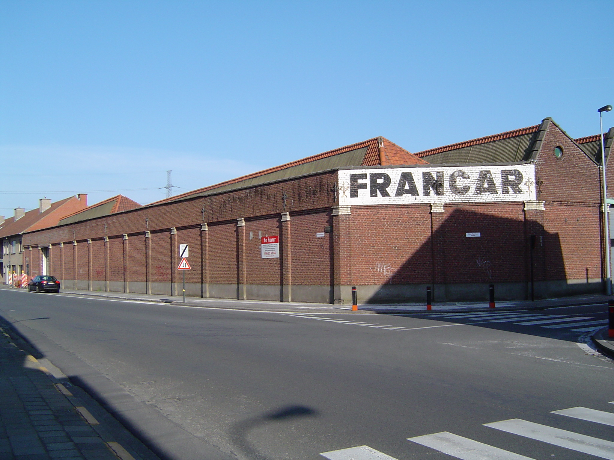 Old commercial property Francar at Waregemstraat in Deerlijk, 2008